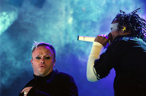 The Prodigy at the Openair Frauenfeld, Switzerland